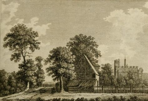 Rye House, Hertfordshire, United Kingdom, engraving from the Supplement to the Antiquities of England and Wales (1777), by Francis Grose.